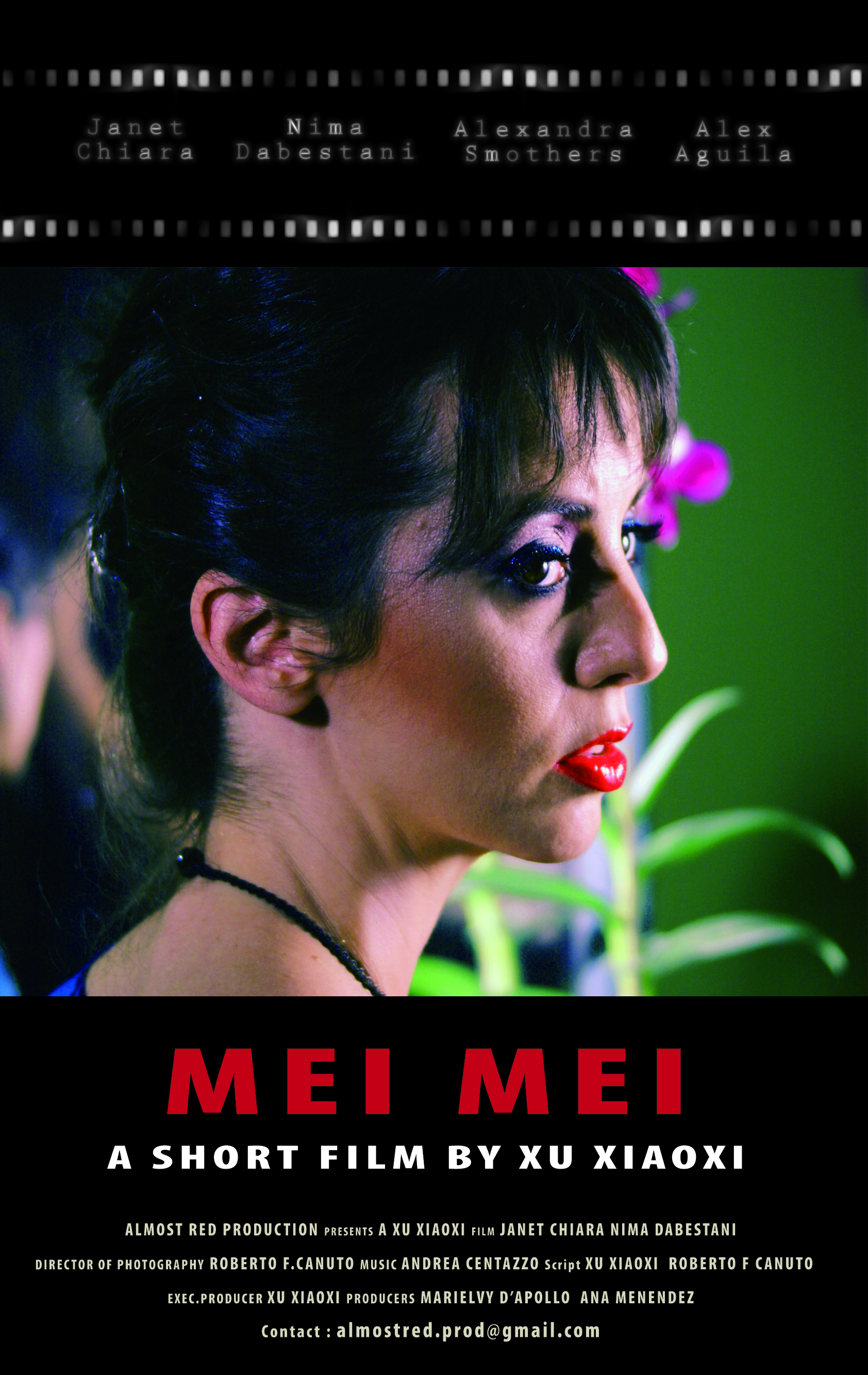 Mei Mei Poster (a film by Xu Xiaoxi)